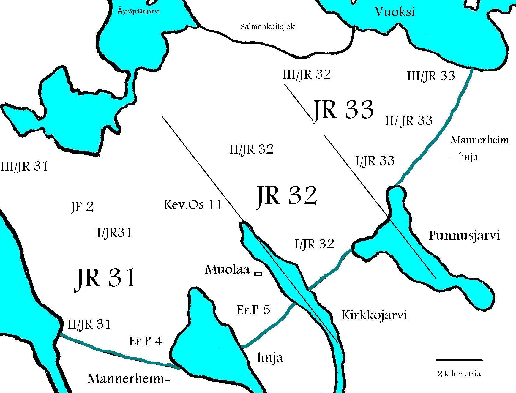 Map of the finnish 11th division area in winter war at middle of december 1939.